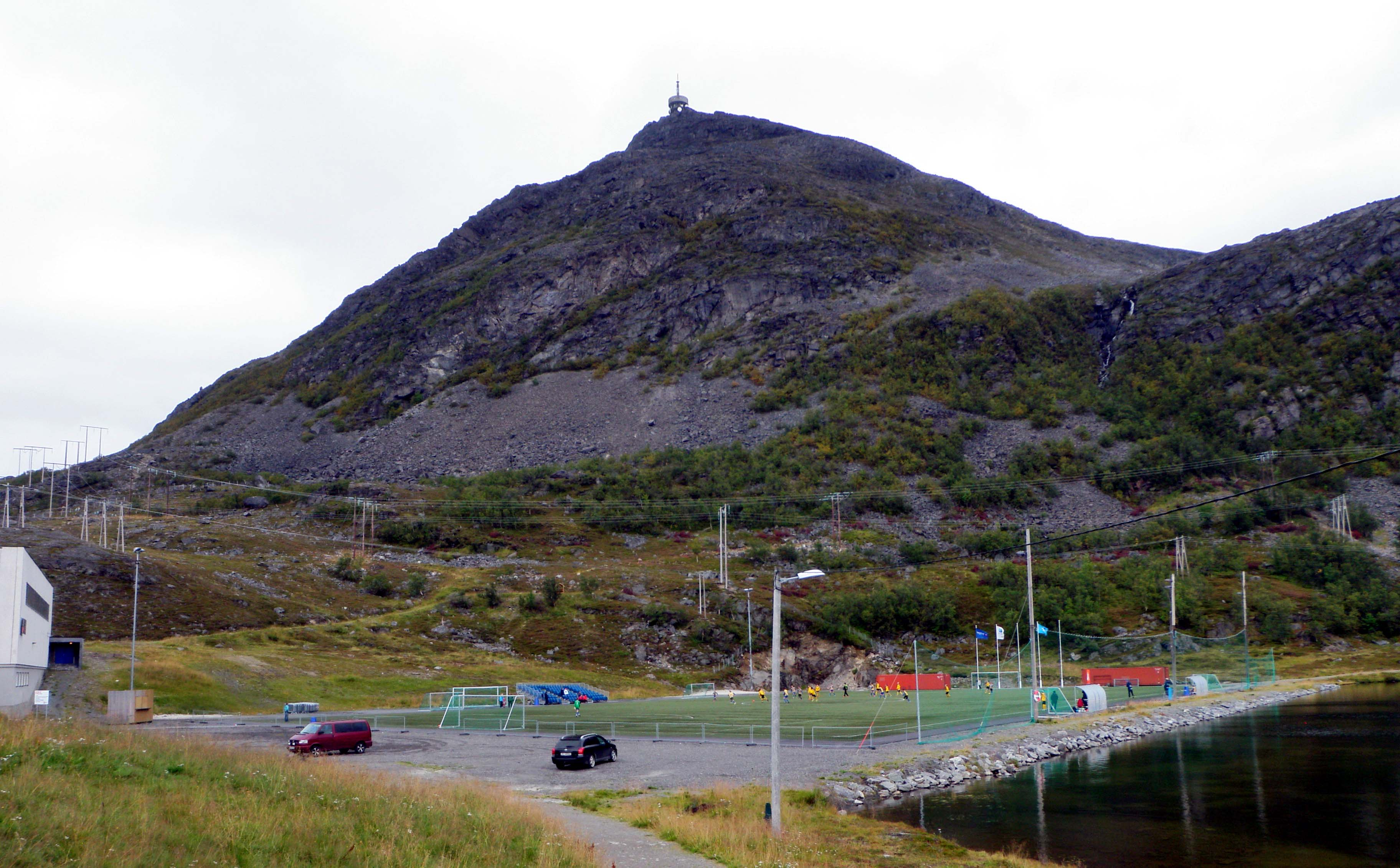 Breidablikk stadion, home venue of the football club Hammerfest FK, in Rypefjord in Hammerfest, Norway. The mountain Tyven in the background.